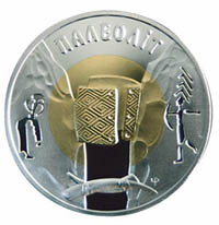 Coin of Ukraine